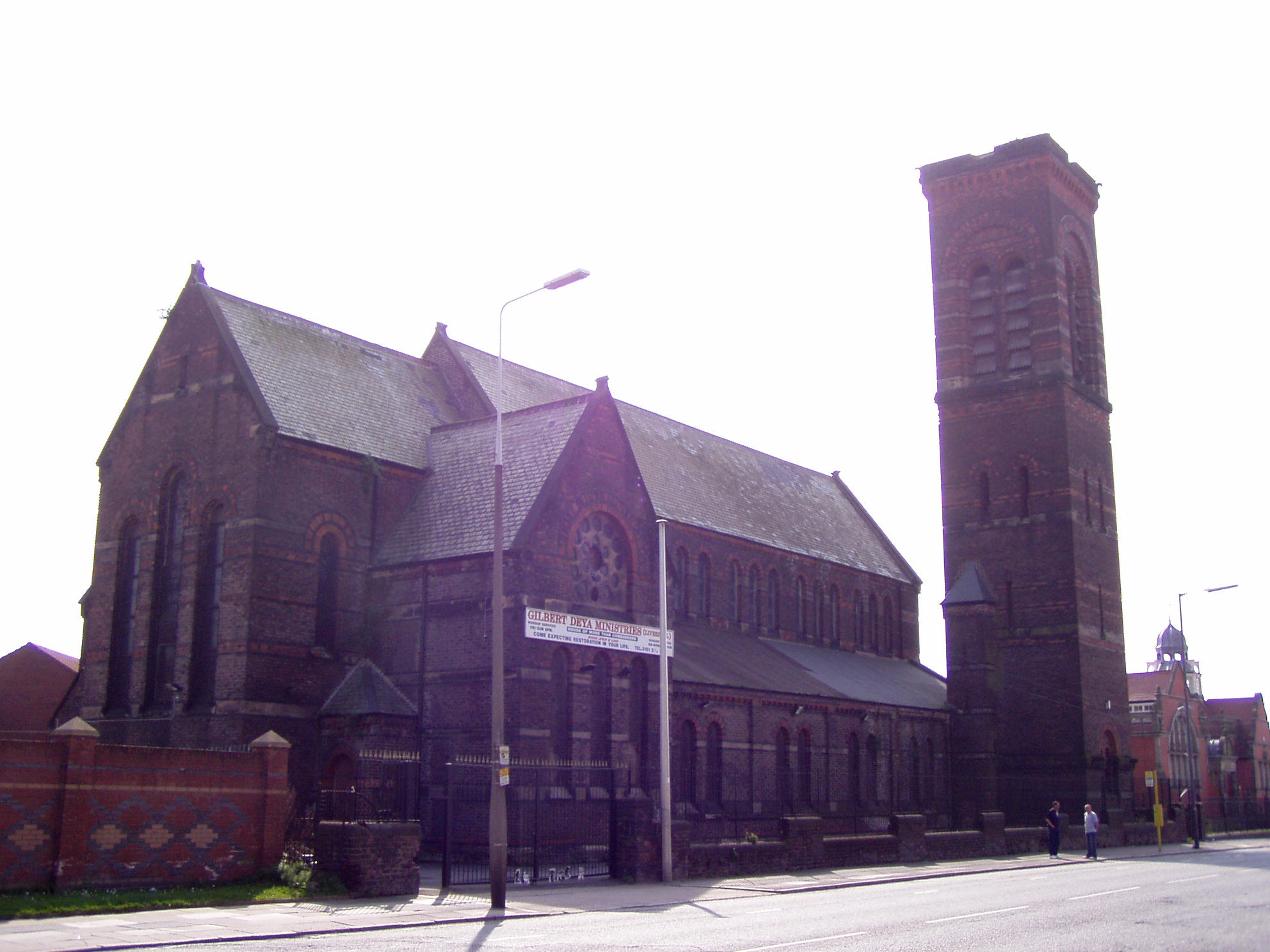 Gilbert_Deya_Ministries Church in Liverpool formerly Christ Church CoE